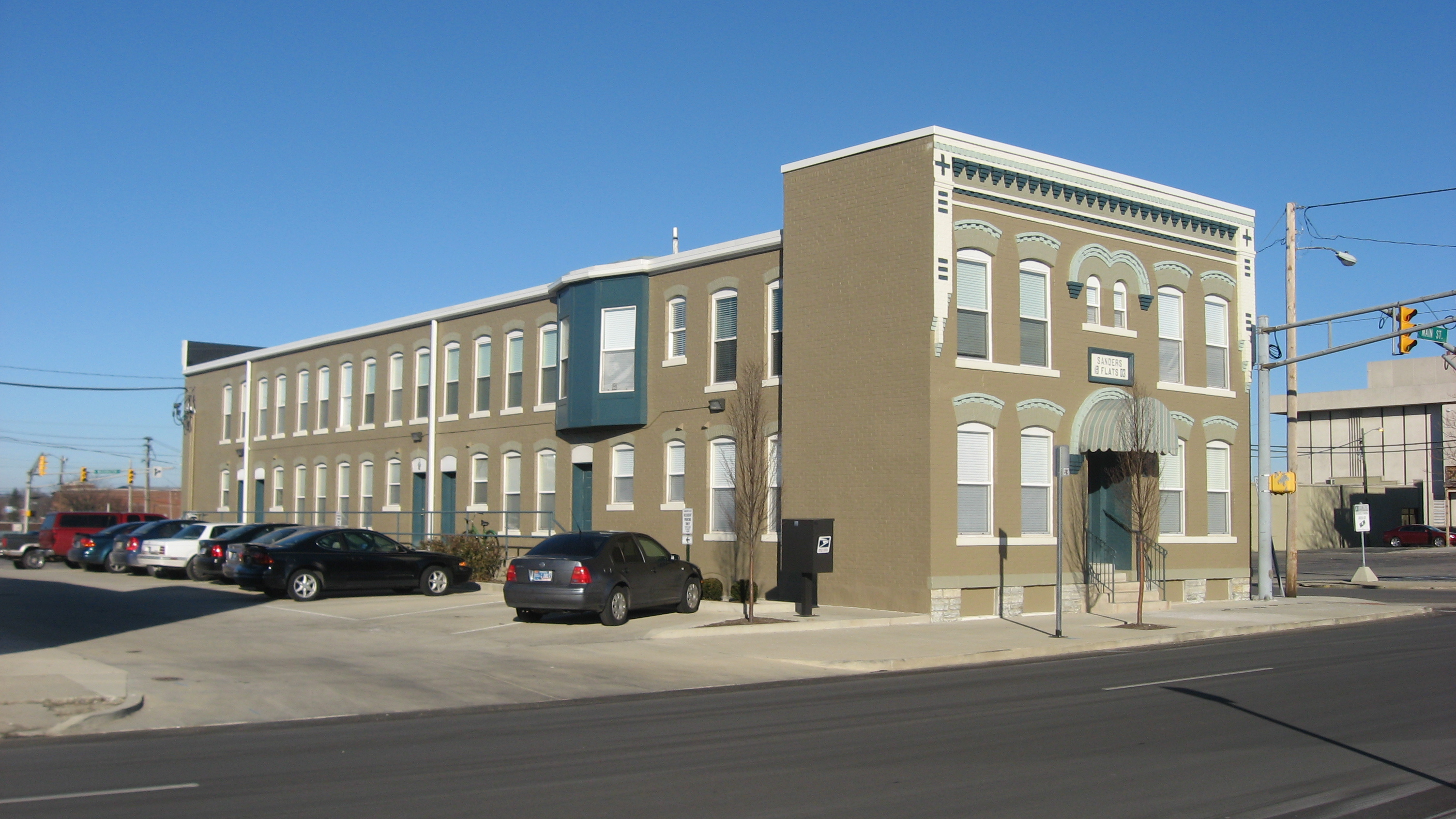 Front and western side of the Judson Building, located at 300 W. Main Street in Muncie, Indiana, United States. Built in 1900, it is listed on the National Register of Historic Places.